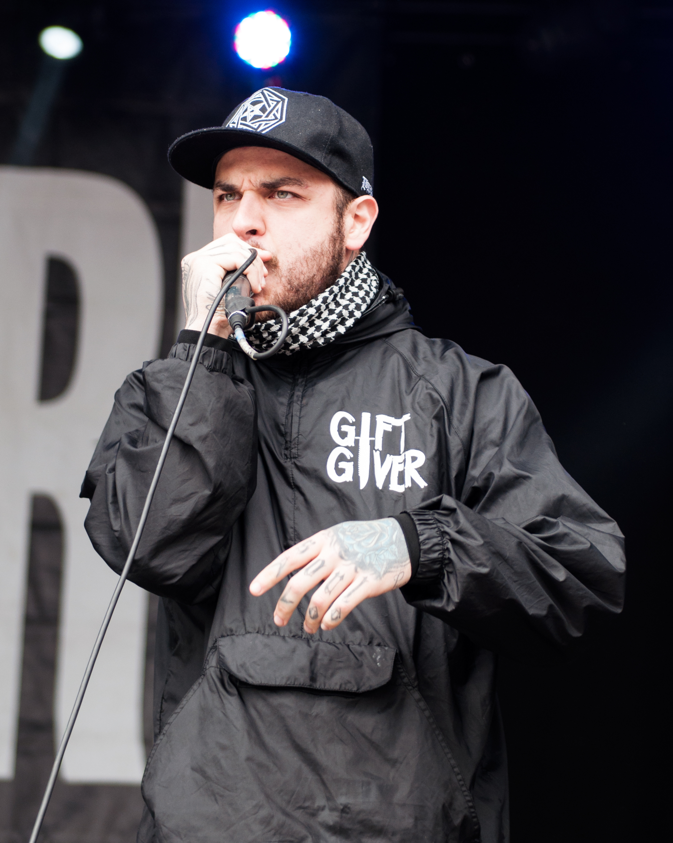 Emmure at Vainstream Rockfest 2014